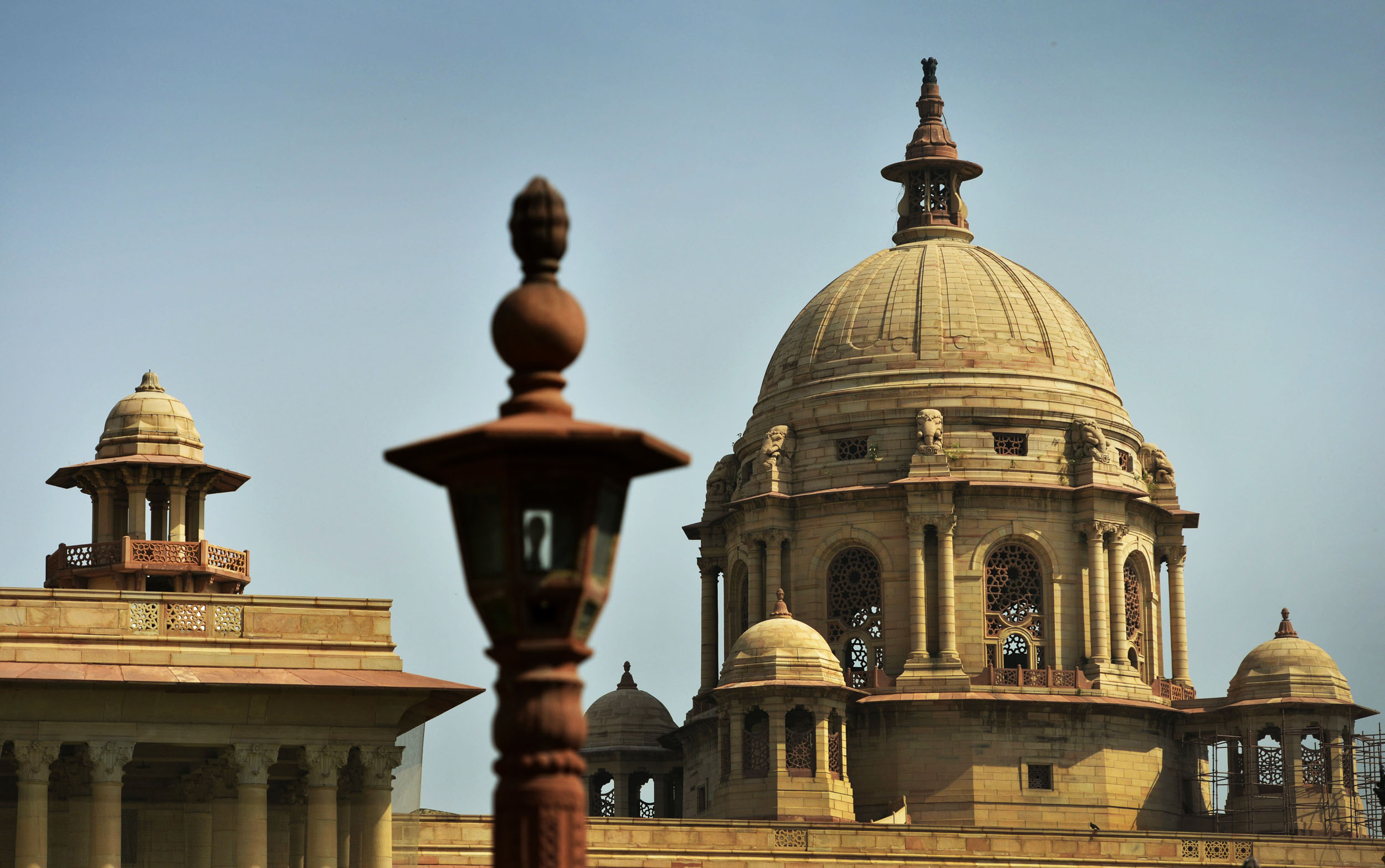 Indian government buildings, with their ornate tops, date back to British colonial rule in New Delhi, Sept. 17, 2013.